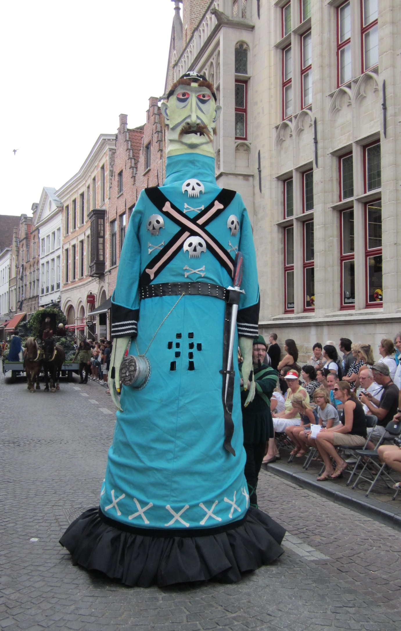 Parade of the Golden Tree in Bruges: Giant Grimminck. Giants and thieves in the forests of Flanders.